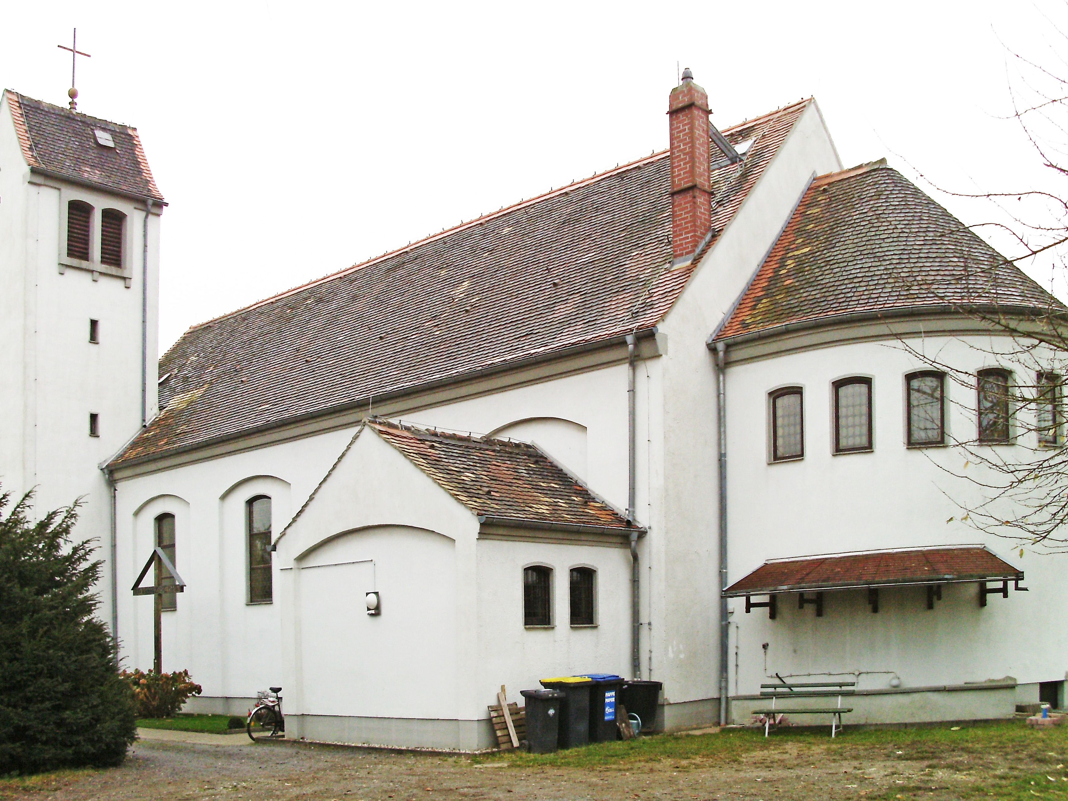 Roman catholic Christ the King church in Böhlen (Leipzig district, Saxony)